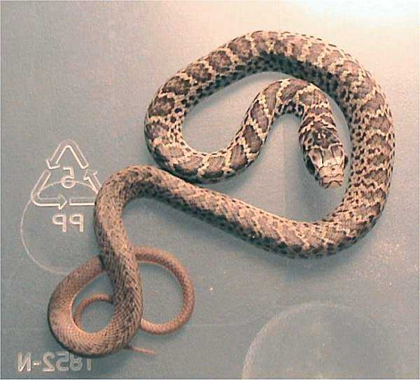 Juvenile Yellowbelly Racer, C. c. flaviventris